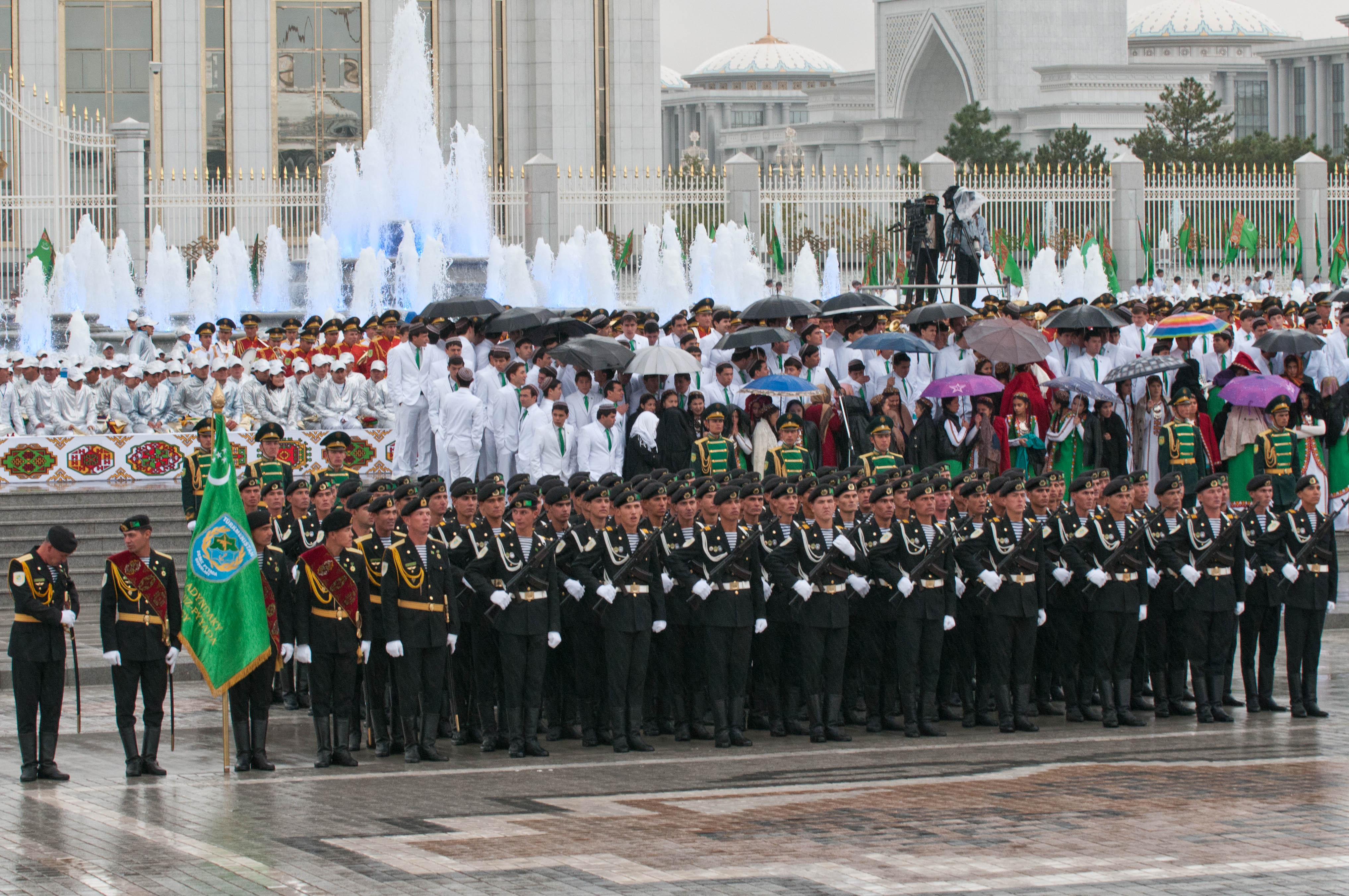 Celebrating the 20th year of independence in Turkmenistan